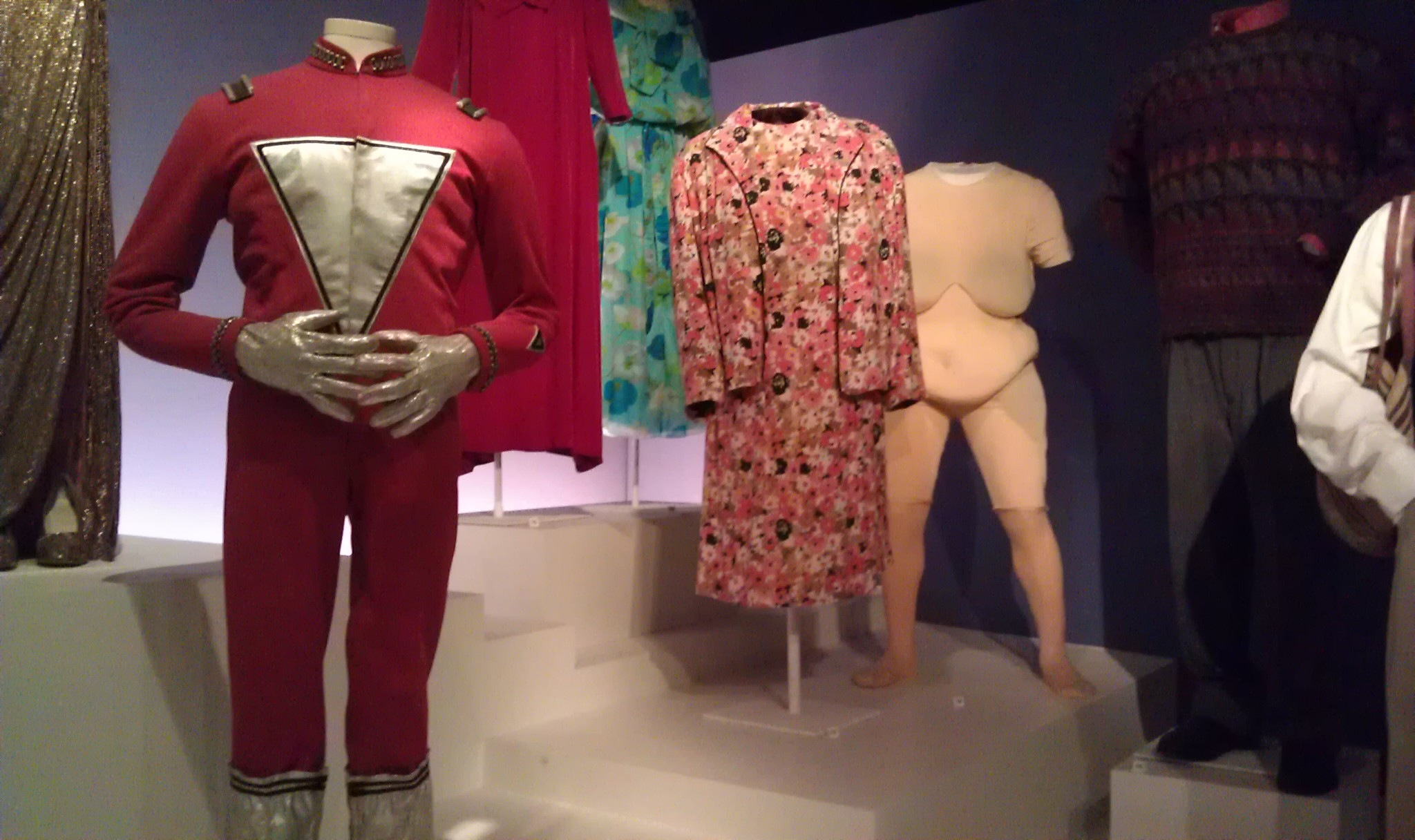 Costumes displayed at the Museum of the Moving Image, Astoria, Queens, New York City. (on the left) Mork's costume from Mork & Mindy. (on the right) Suit and dress from Mrs. Doubtfire.